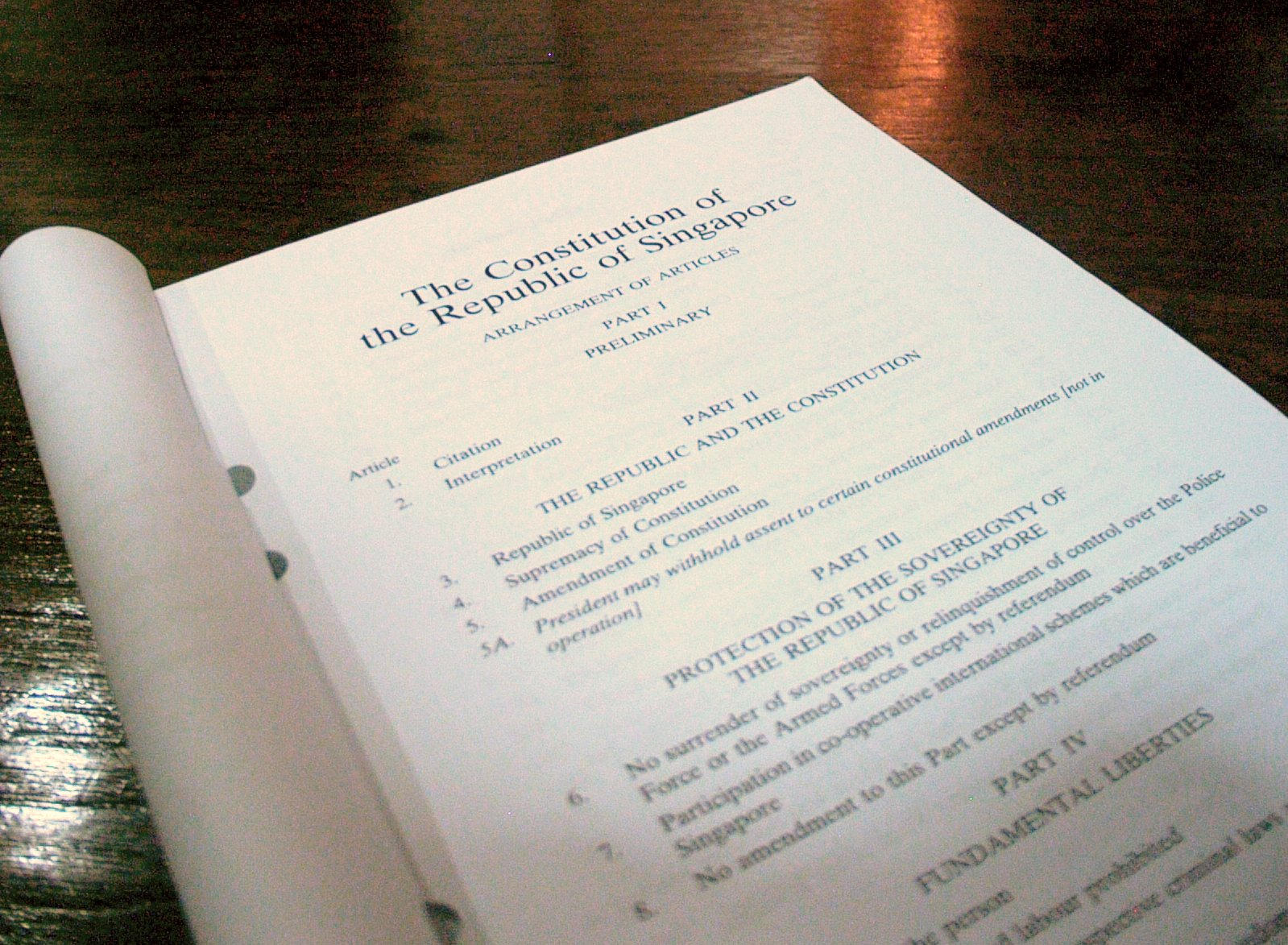 First contents page of the 1999 Reprint of the Constitution of Singapore.